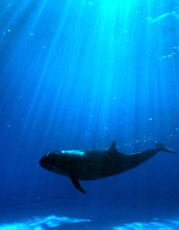 A false killer whale